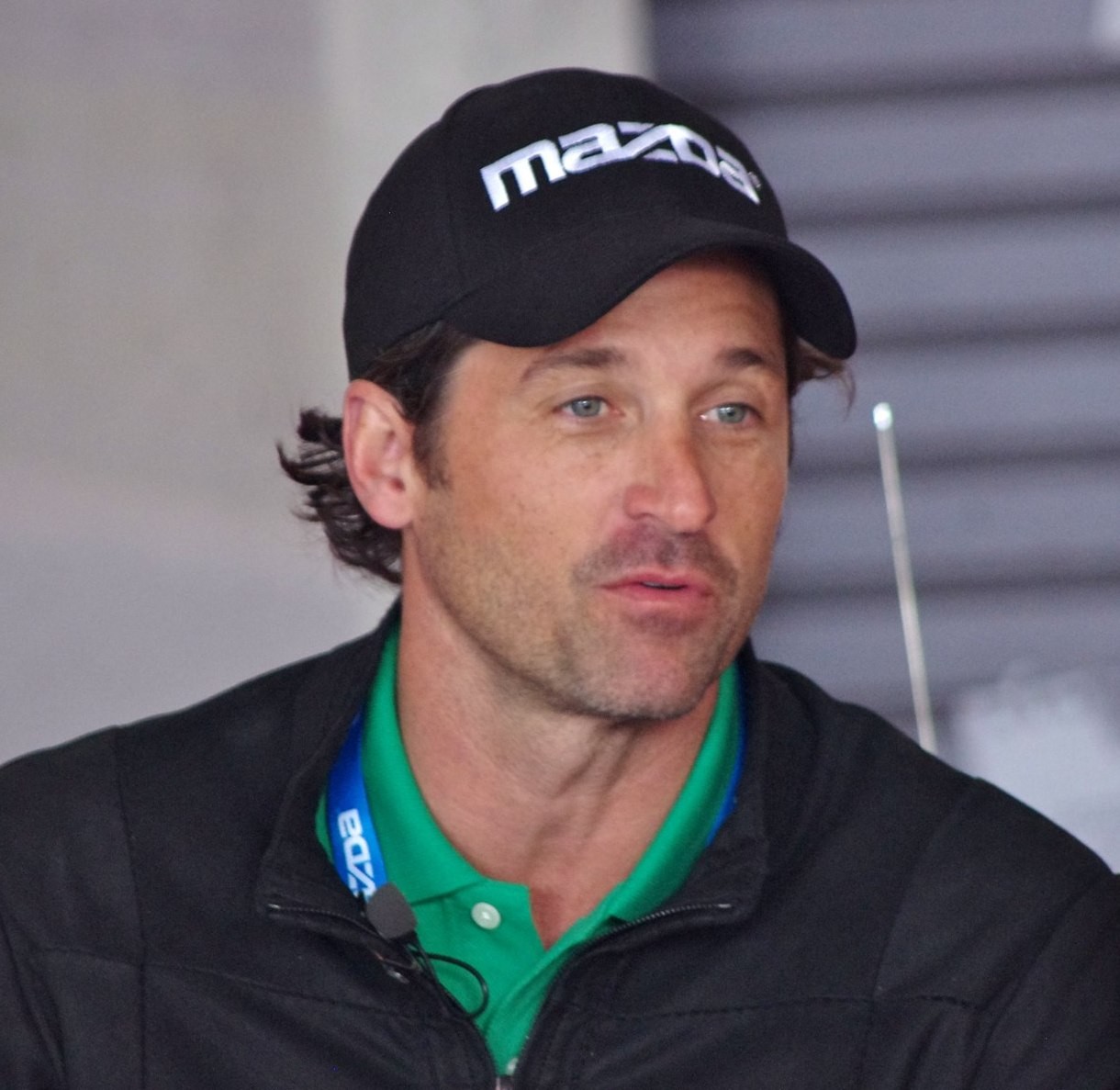 Patrick Dempsey at 2011 24 Hours of Le Mans